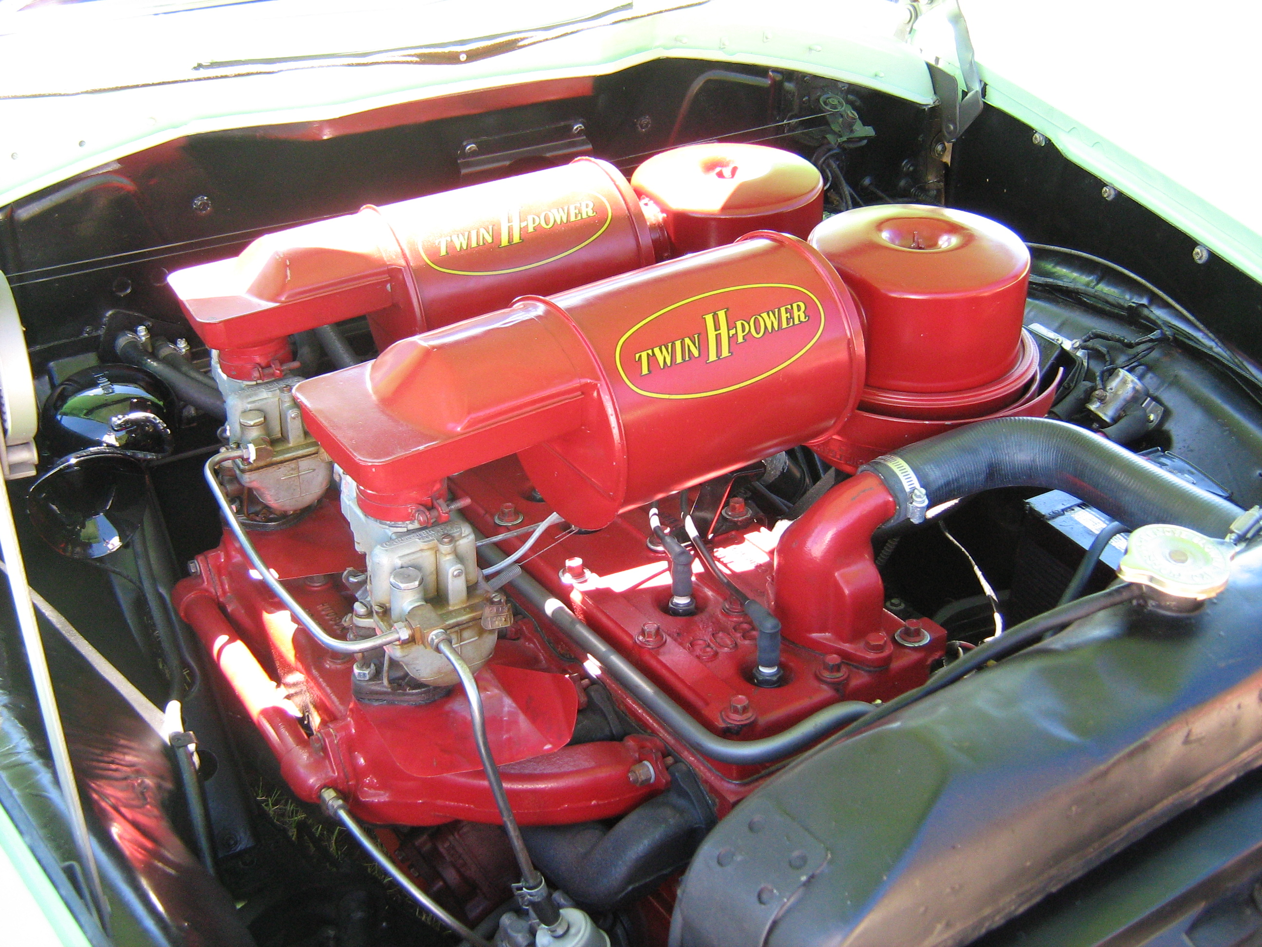 1954 Hudson Hornet "Twin H-power" engine, front right side view. The 308 cu in (5.0 L) straight-six engine produces 170 hp (127 kW). Picture taken at a local car show in North Carolina, USA.